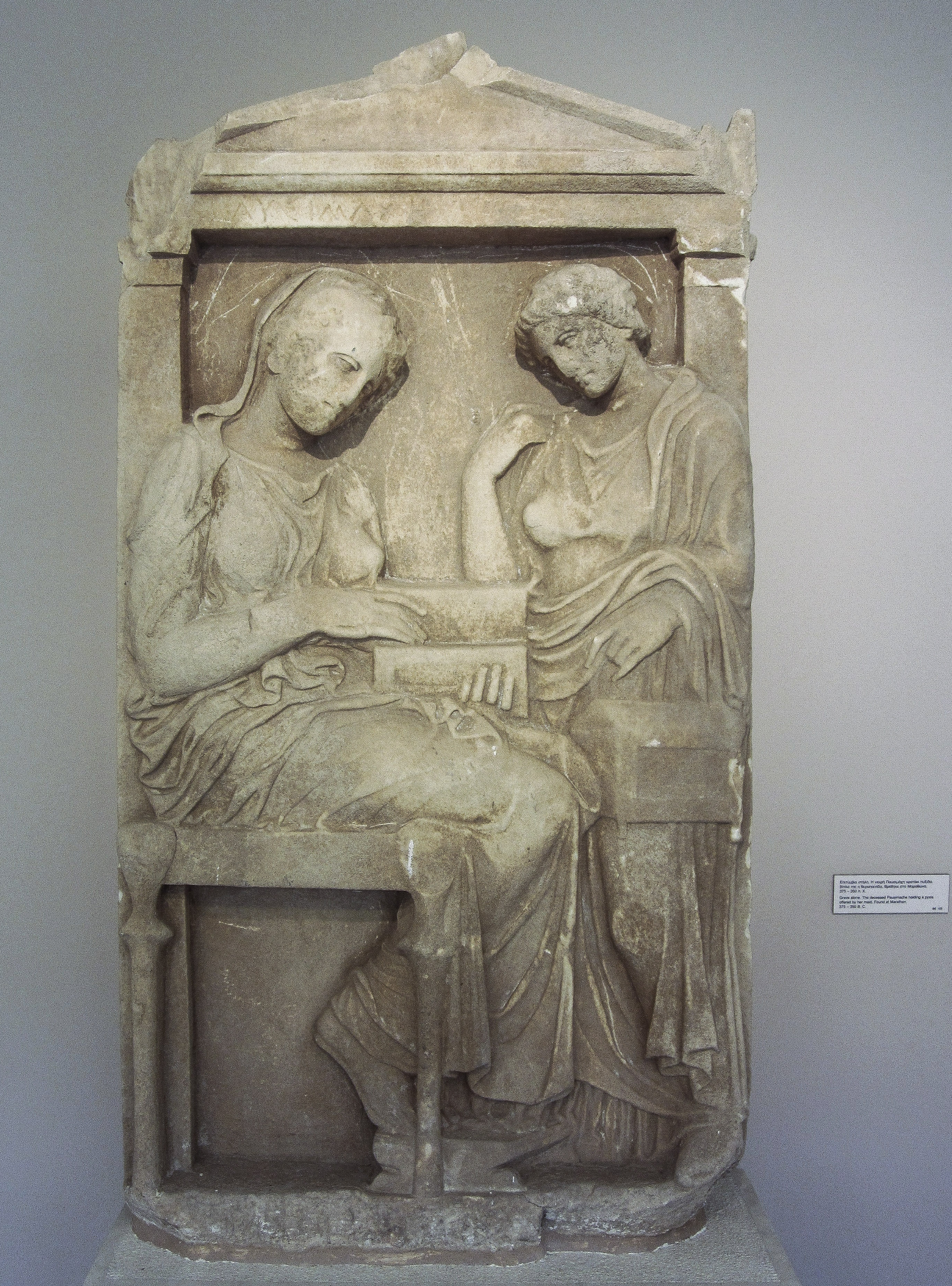 Grave stone. The deceased Pausimache holding a pyxis offered by her maid, Marathon, 375–350 BC. Archaeological Museum of Marathon, Greece.